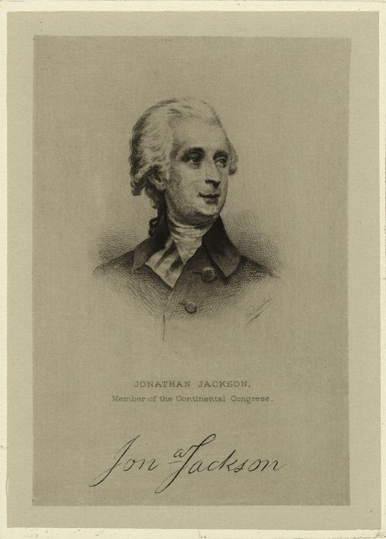 Jonathan Jackson, Delegate to Continental Congress